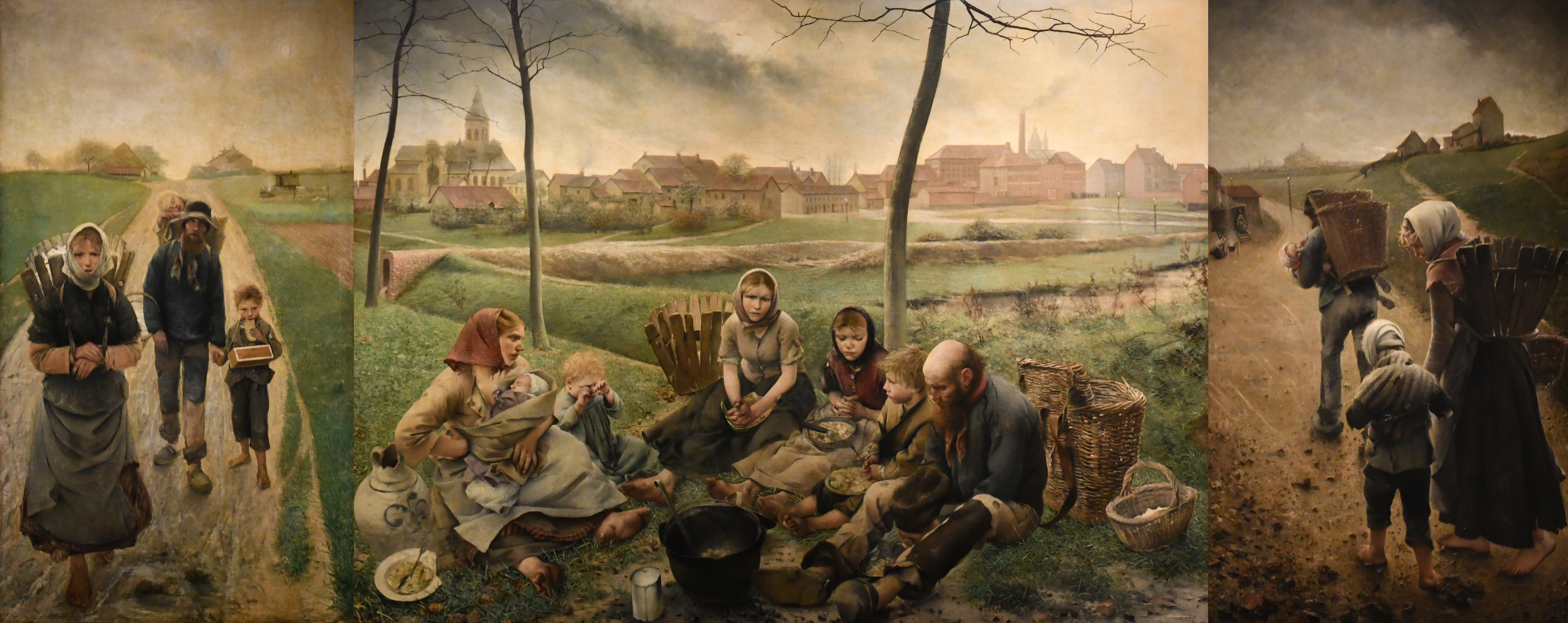 The chalks seller - Léon Frédéric - Musées Royaux des Beaux-arts - Bruxelles